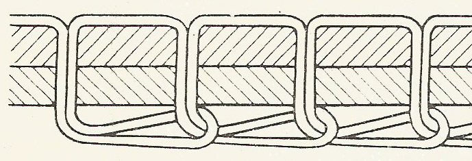 Chainstitch